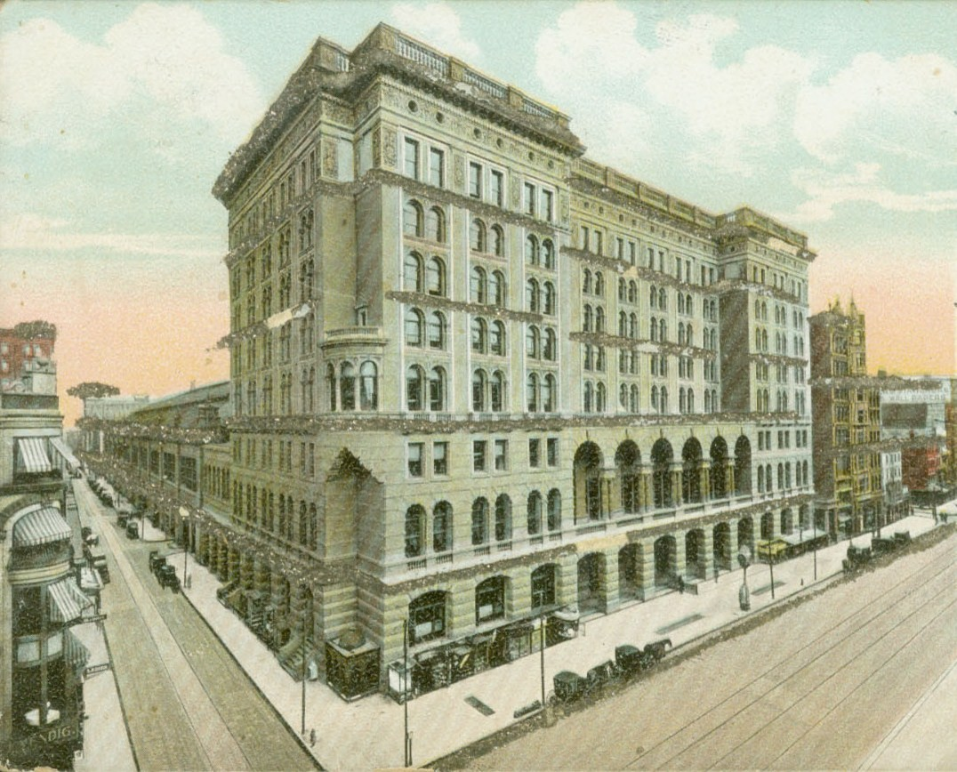 Postcard picture of Reading Terminal in Philadelphia, Pennsylvania; message part of postcard (at that time on the front -- or picture side -- of the card has been cropped. Cropped part caption states: "2368—Reading Terminal, 12th and Market Sts., Philadelphia, Pa." Also in cropped part on front of postcard (along right edge): "Souvenir Post Card Co., New York and Berlin." (all in red ink); Opposite (address) side of card also shown, postmark shows it was mailed August 8, 1906